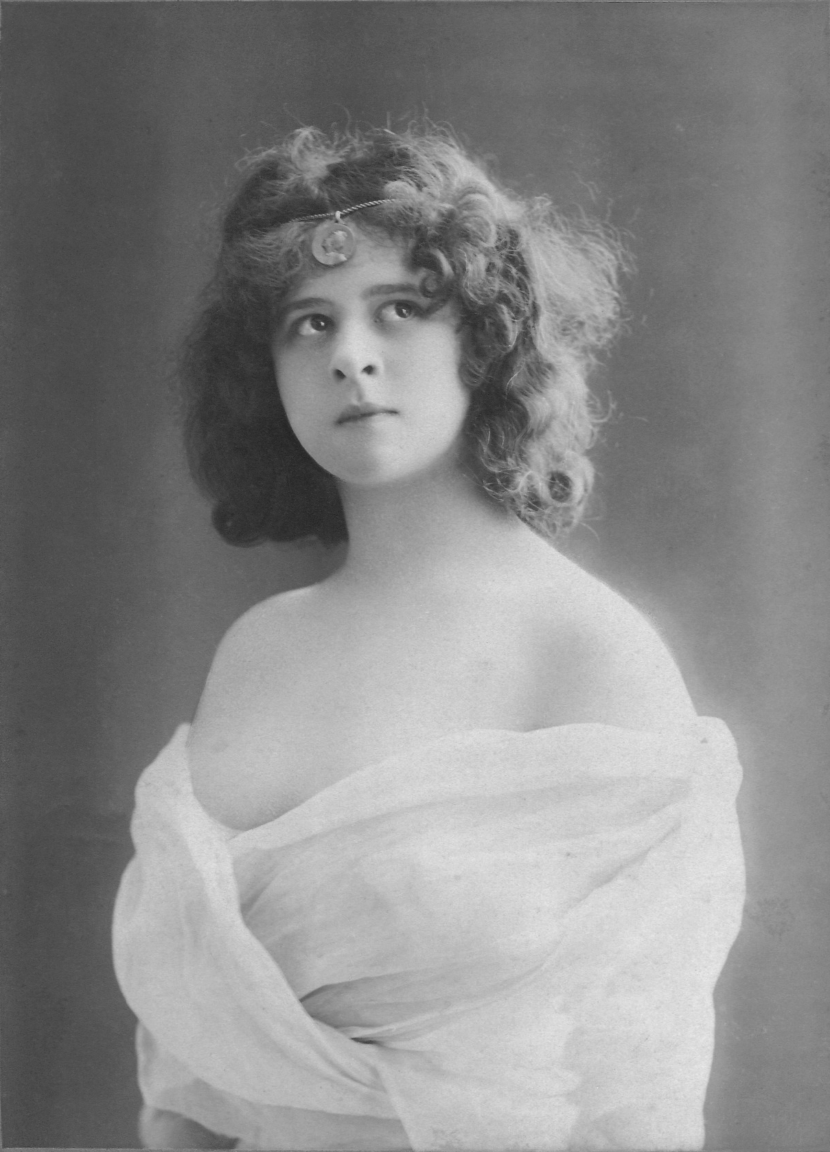 Élise de Vère, by Reutlinger.